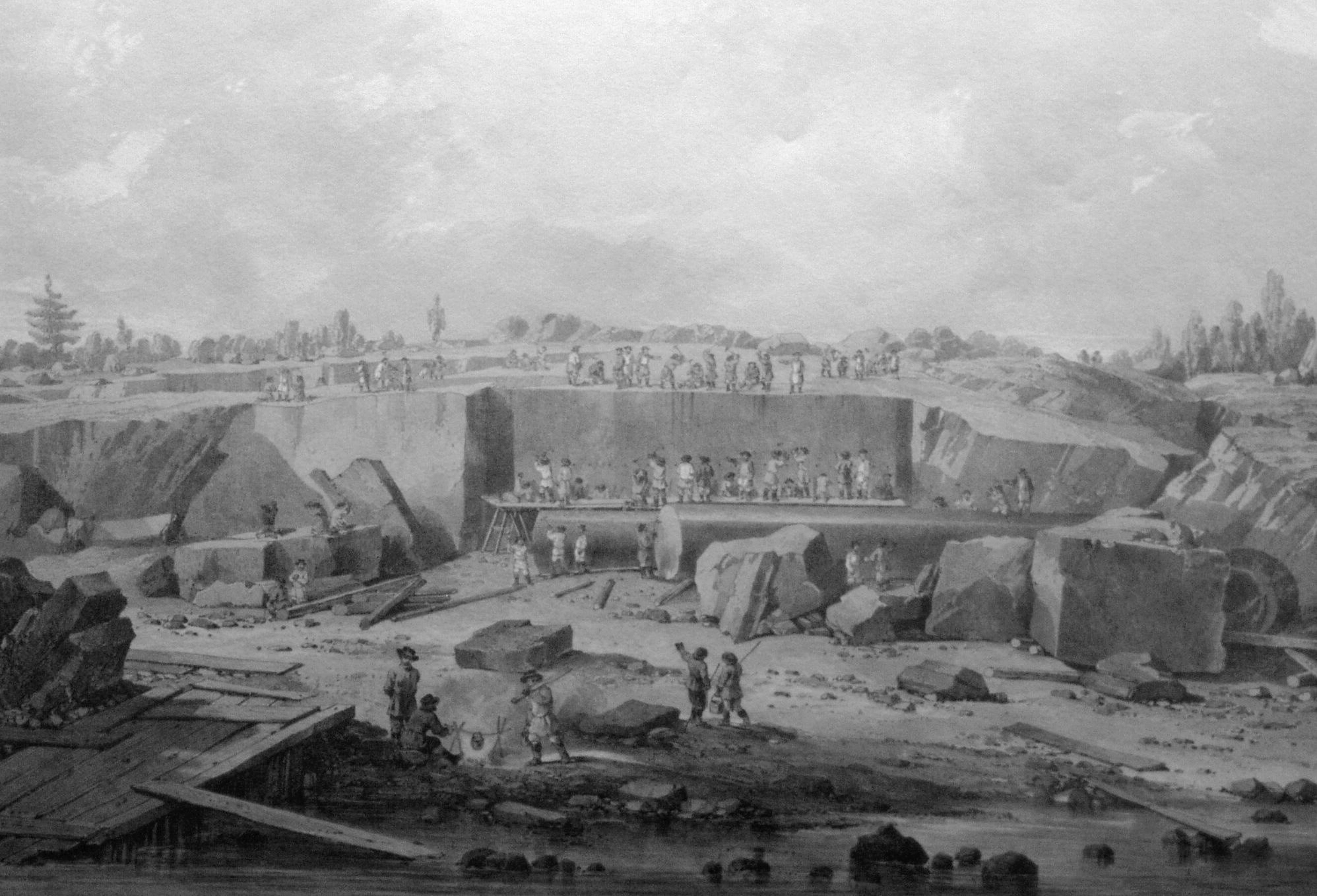 Building the Isaakcathedral in Sankt Petersburg